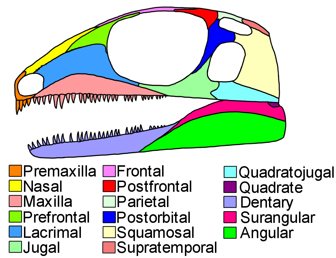 A color-coded skull diagram of Petrolacosaurus kansensis, based on a diagram published by Reisz (1980).